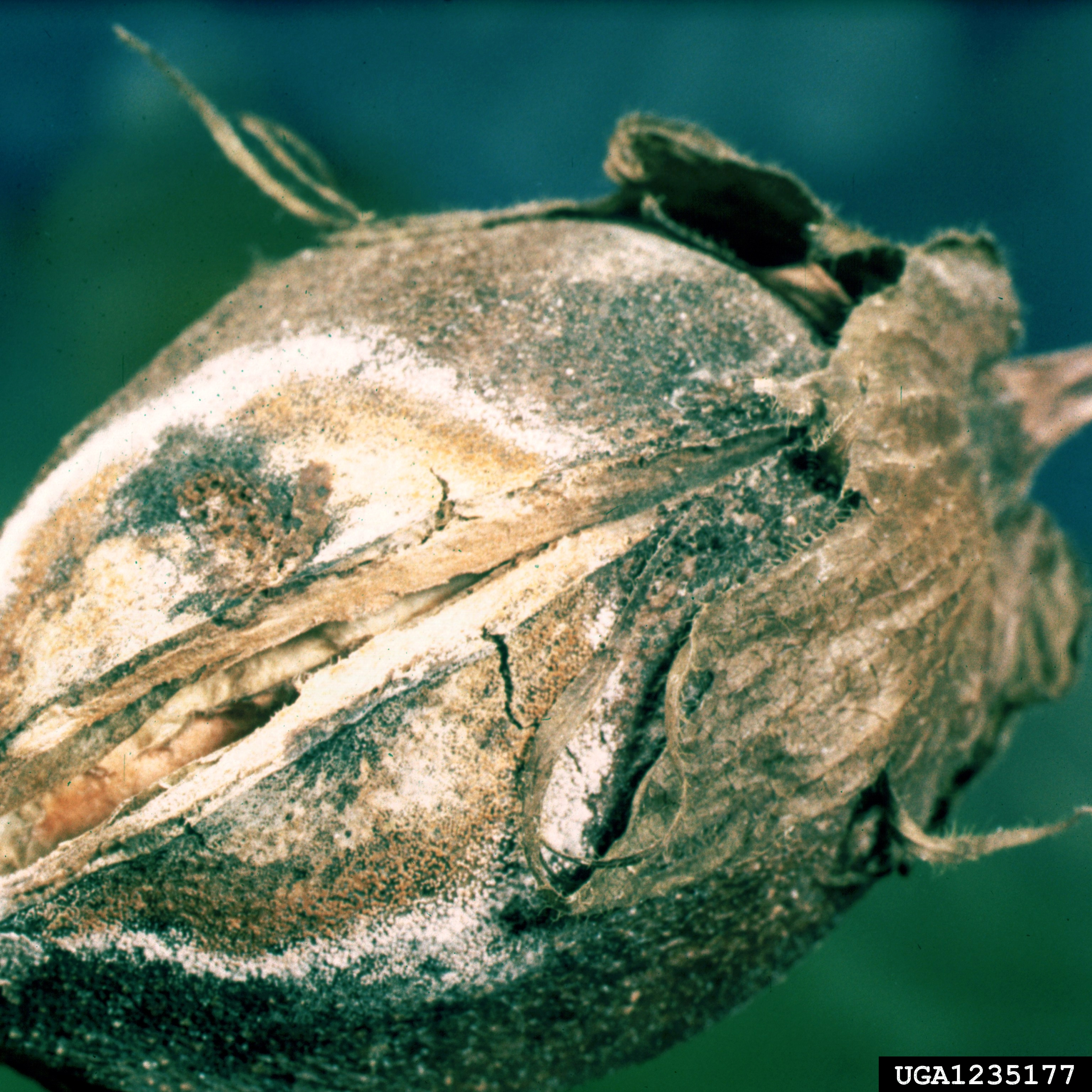 Gibberella fujikuroi Typical damage to Gossypium hirsutum